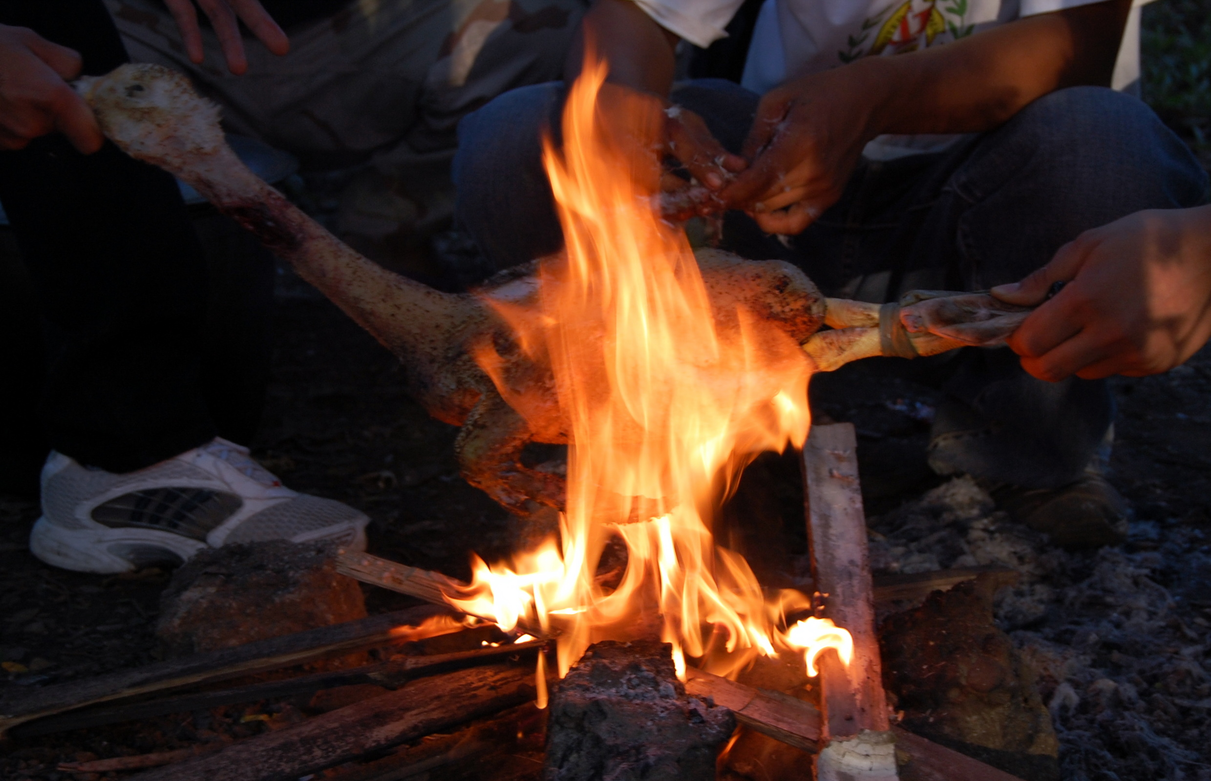 The ritual of butchering a duck in the North is also known as "Killing Me Softly": the poor bird is defeathered alive, hit gently several times with a bamboo slat until blood oozes out of the skin, neck slit with a sharp knife for bloodletting, then quickly scorched with fire to burn out the remaining feathers. This one was made into kilawen and a pot of inlagim. Nikon D40 (UI 29th Founding Anniversary, November 2007).